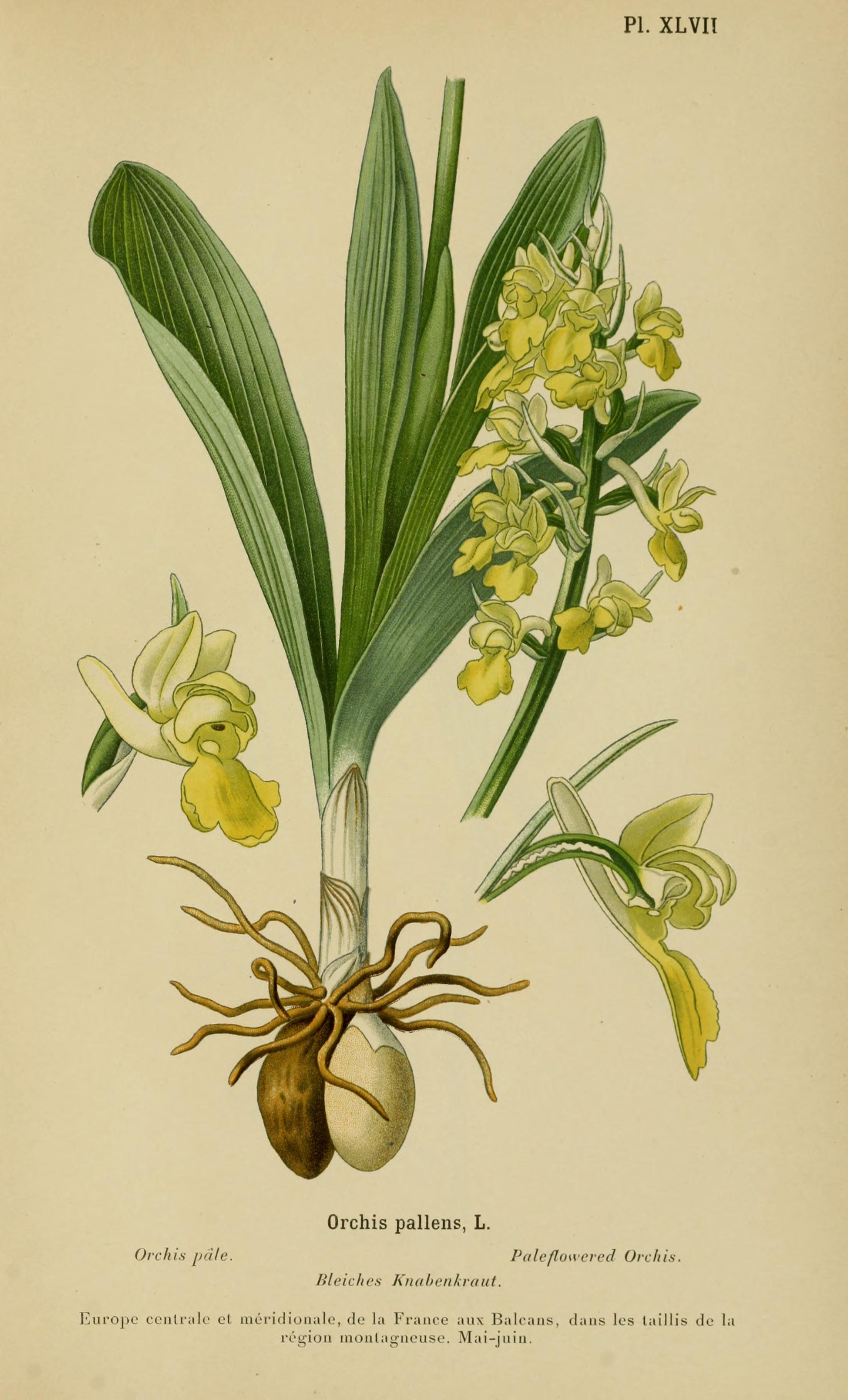 Title: Album des orchidées de l'Europe centrale et septentrionale Year: 1899 (1890s) Authors: Correvon, Henry, 1854-1939 Subjects: Publisher: Genève, Librairie Georg Text Appearing Before Image: PI. XLVII Text Appearing After Image: Orchis pâle. Orchis pallens, L. Bleiclies Knahcukraut. PalefluKveved Orcfiis. Euroj)e comIimIo et méridionale, do la France aux Balcaiis, dans les taillis de la région nionlagneuse. Mai-juin.